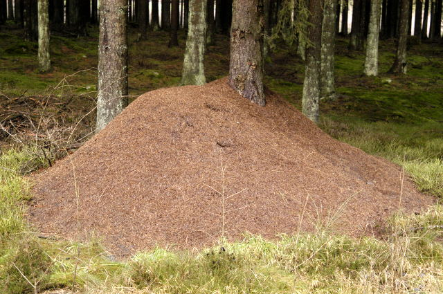 Formica rufa from Commanster, Belgian High Ardennes .